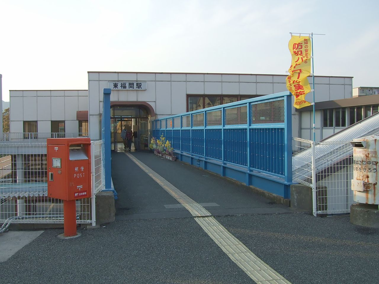 Higashi-Fukuma Station, Kagoshima Line, Kyushu Railway Company.